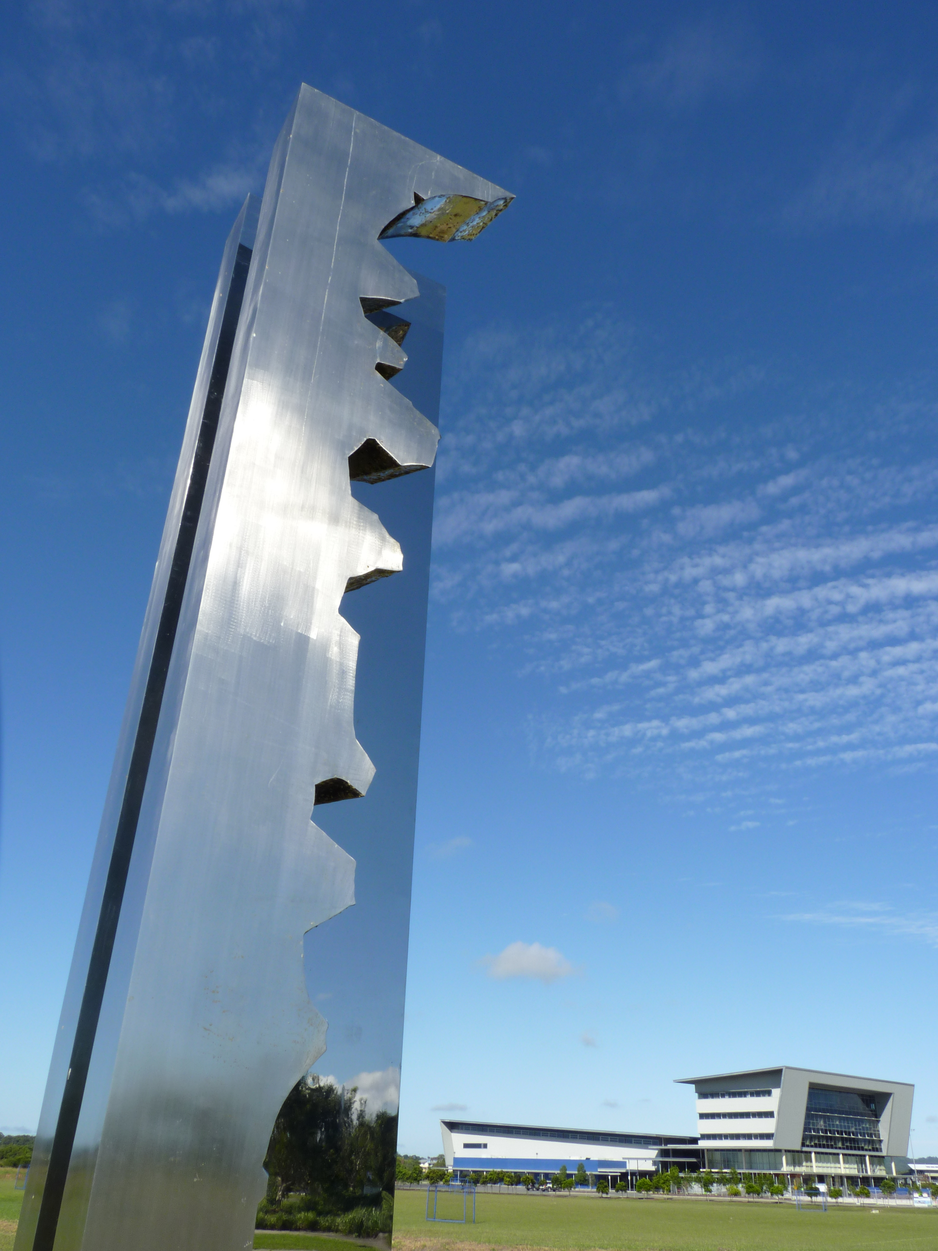 Leonard SABOL, "Between" polished stainless steel on concrete, 6M x 1.3m x 1 M, 2010 (USC Health and Sport Centre in background) Photograph taken Good Friday 22 April 2011 by author